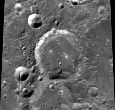 Clementine Regnault is in the center of the field with similar-sized Stokes below it. Regnault straddles the rim of the much larger Volta, partially visible here on its right (east). The conspicuous craters on the left are Regnault C (at 11 o'clock) and Regnault W (at 8 o'clock).